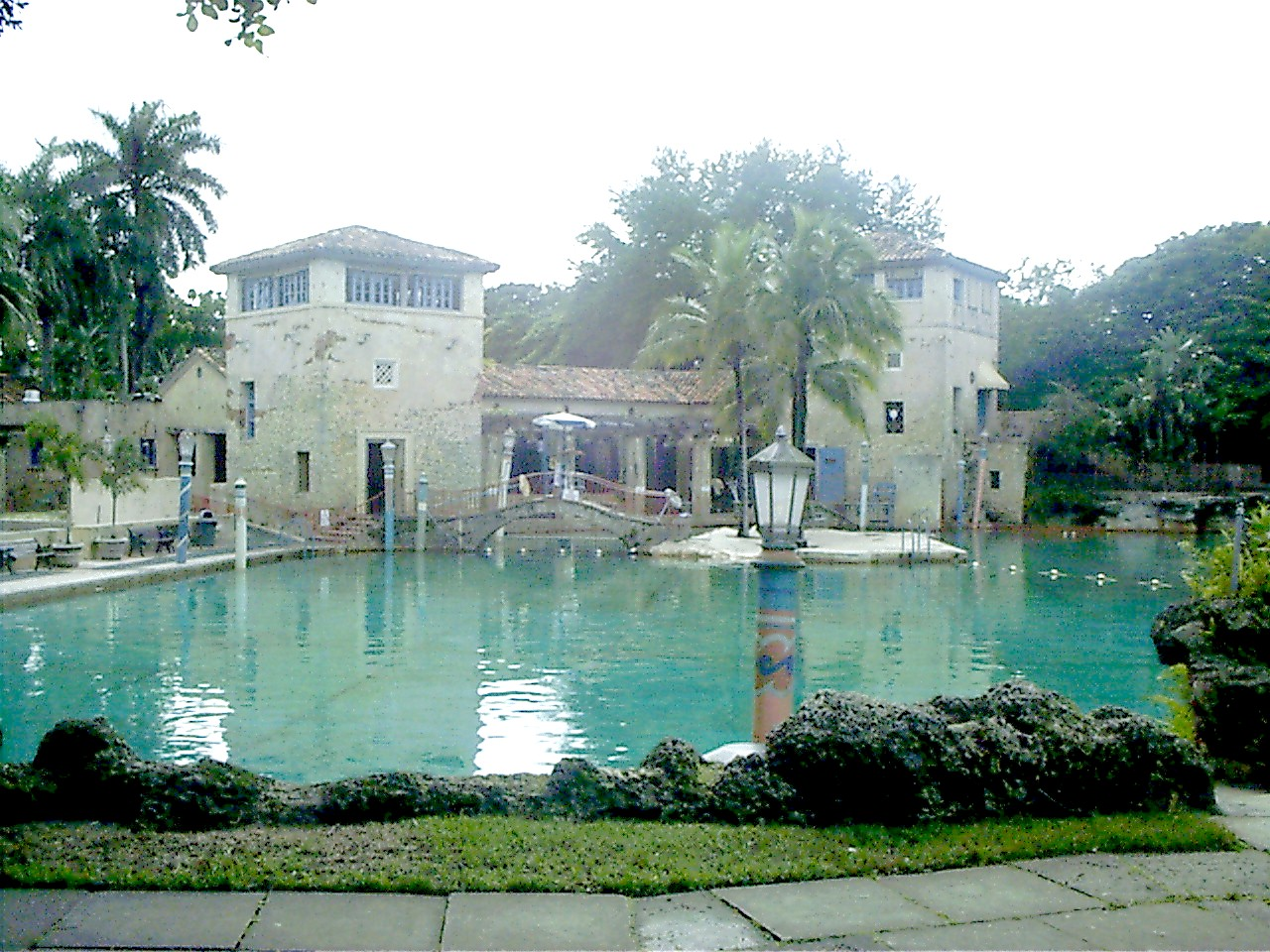 Digital photo taken by Marc Averette The Venetian Pool in Coral Gables, Florida a historic and popular attraction.